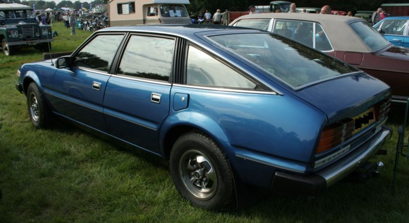 British-built early 1980s Rover 3500 ("SD1") V8-engined car (first series but post-minor-facelift); rear; taken at a classic car rally.